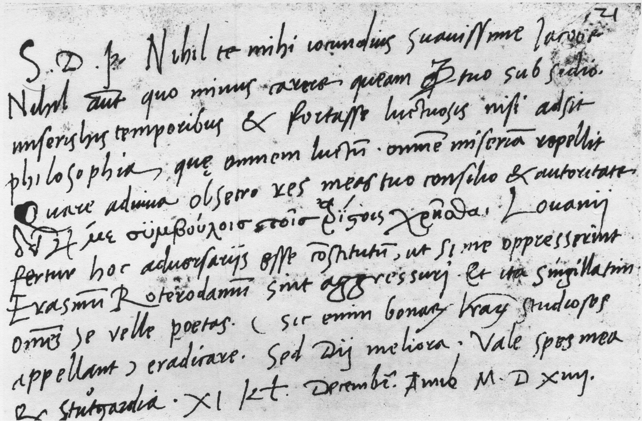 A letter of Johannes Reuchlin dated November 11th, 1514 (original). Berlin, Staatsbibliothek, Ms. lat. fol. 239.